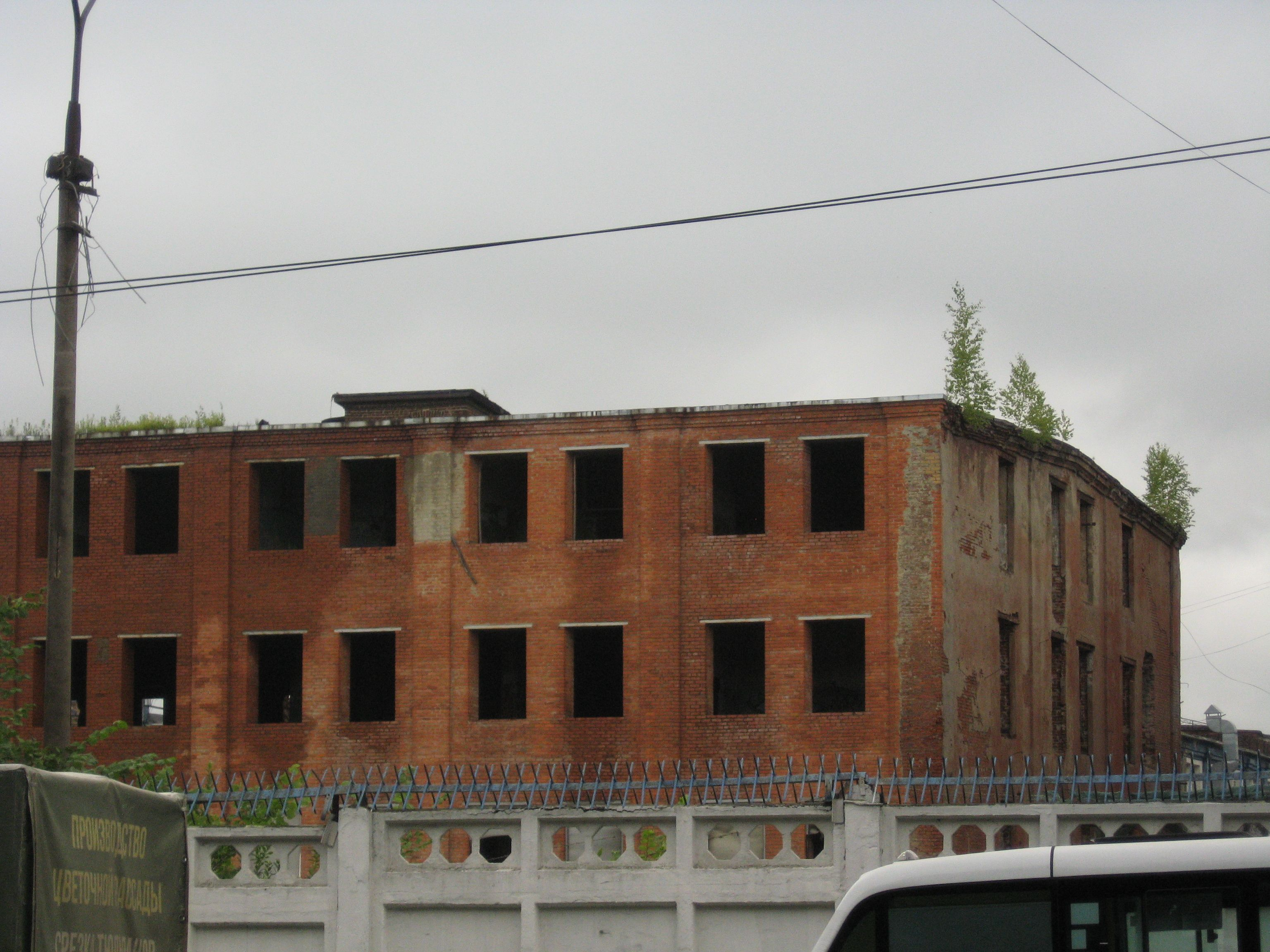 A factory in the Moscow region that manufactured agricultural machinery in the past.